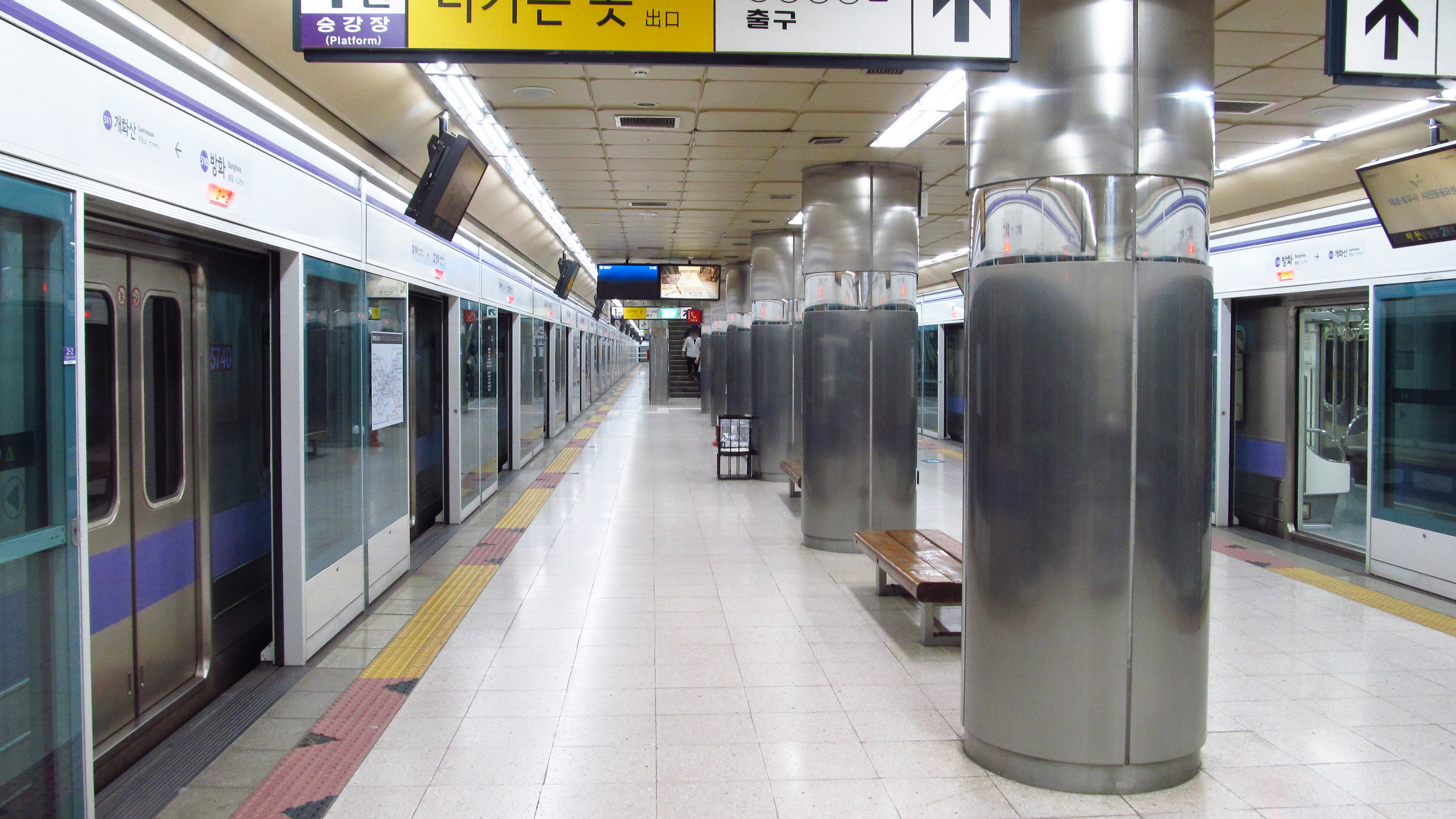 The platform at Banghwa Station on Seoul Subway Line 5 in Gangseo-gu, Seoul, Republic of Korea(South Korea)